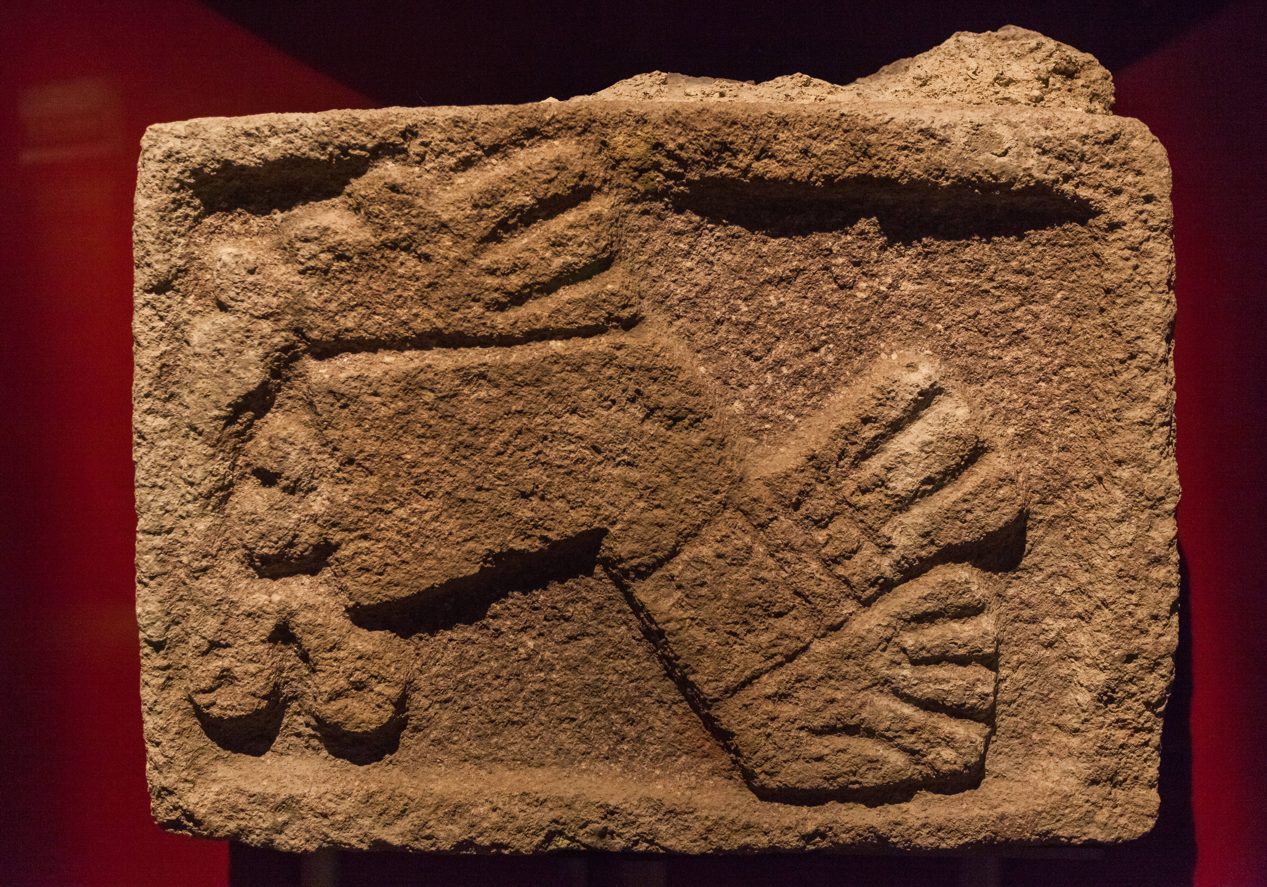 Museo de Sitio del Centro Cultural de España en México, México D.F., México